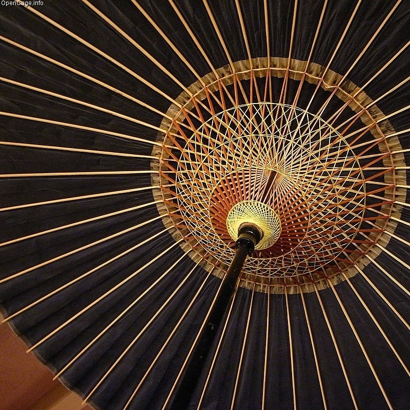 Underside of a Japanese umbrella showing construction